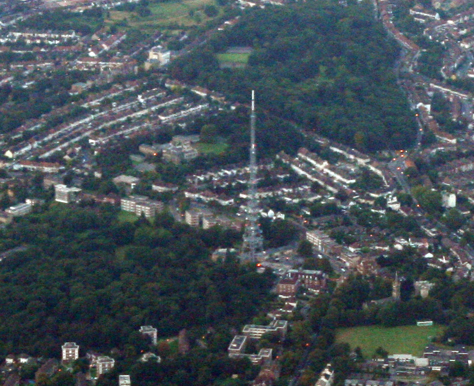 View of upper Norwood, including the Croydon transmitting station (not the Crystal palace transmitter wrongly indicated in source).